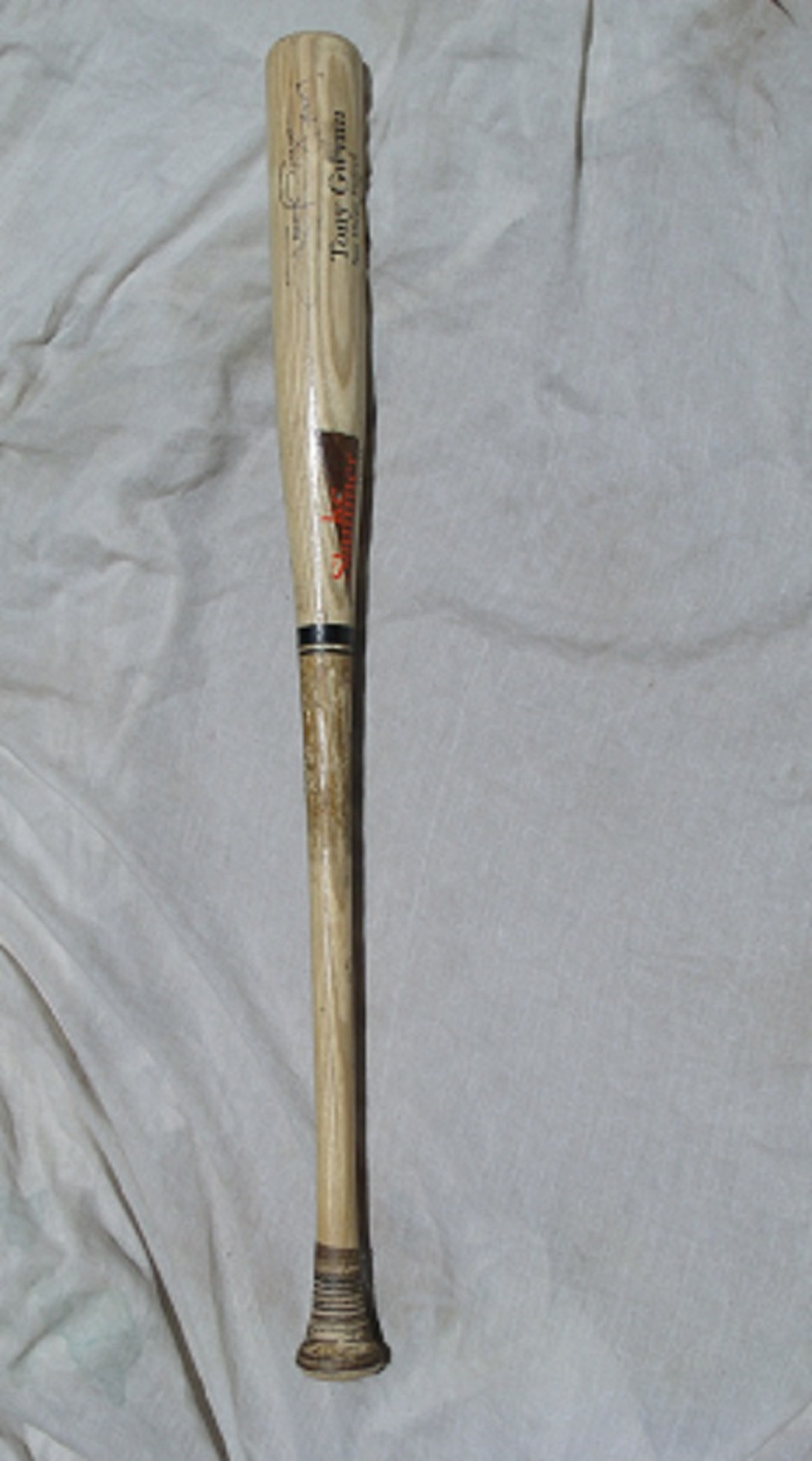 A Tony Gwynn game used and autographed baseball bat.